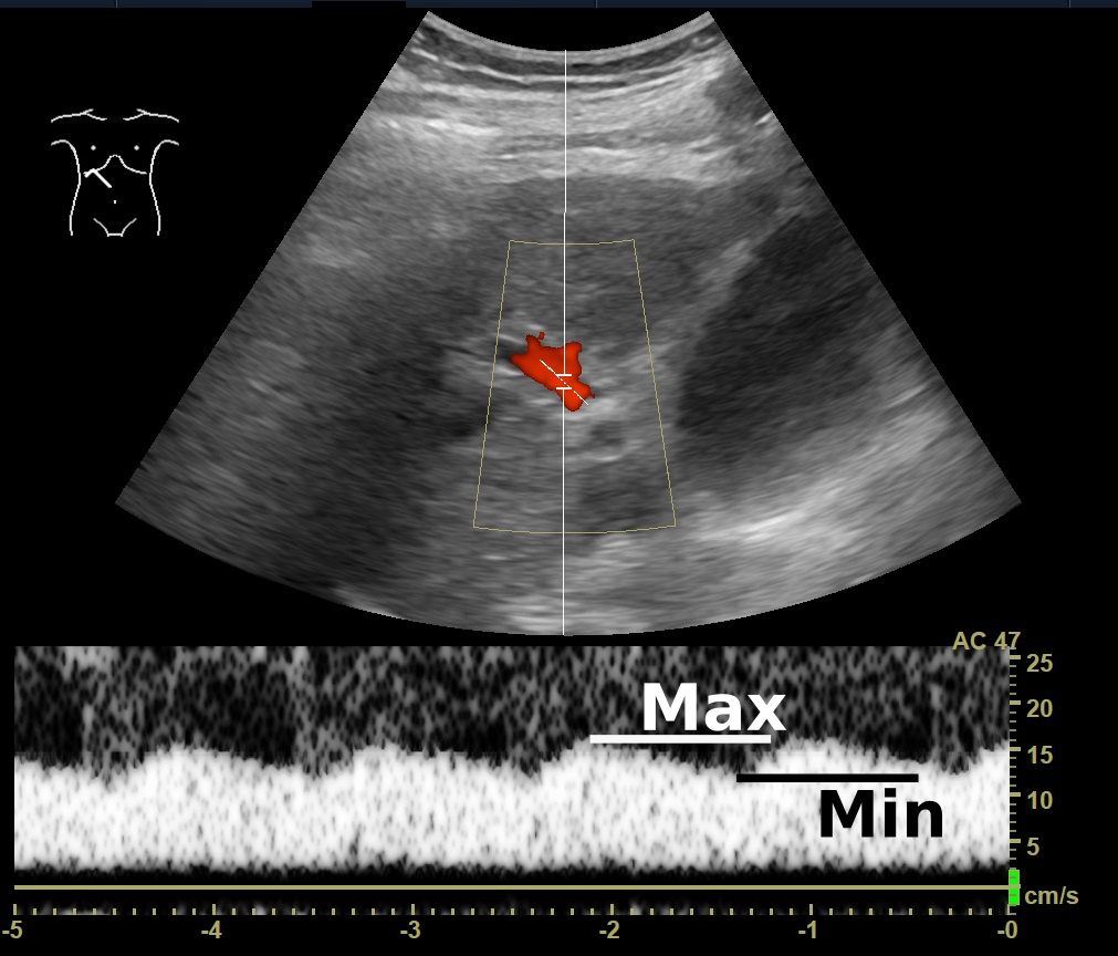 Doppler ultrasonography of the portal vein in a 77 year old man with alcoholic cirrhosis. There is a mild decrease in flow velocity (less than 16 cm/s), which may indicate portal hypertension, although not enough for diagnosis in this case since the diameter of the vein was normal. There is mild pulsatility but not more than can be seen in healthy adults.